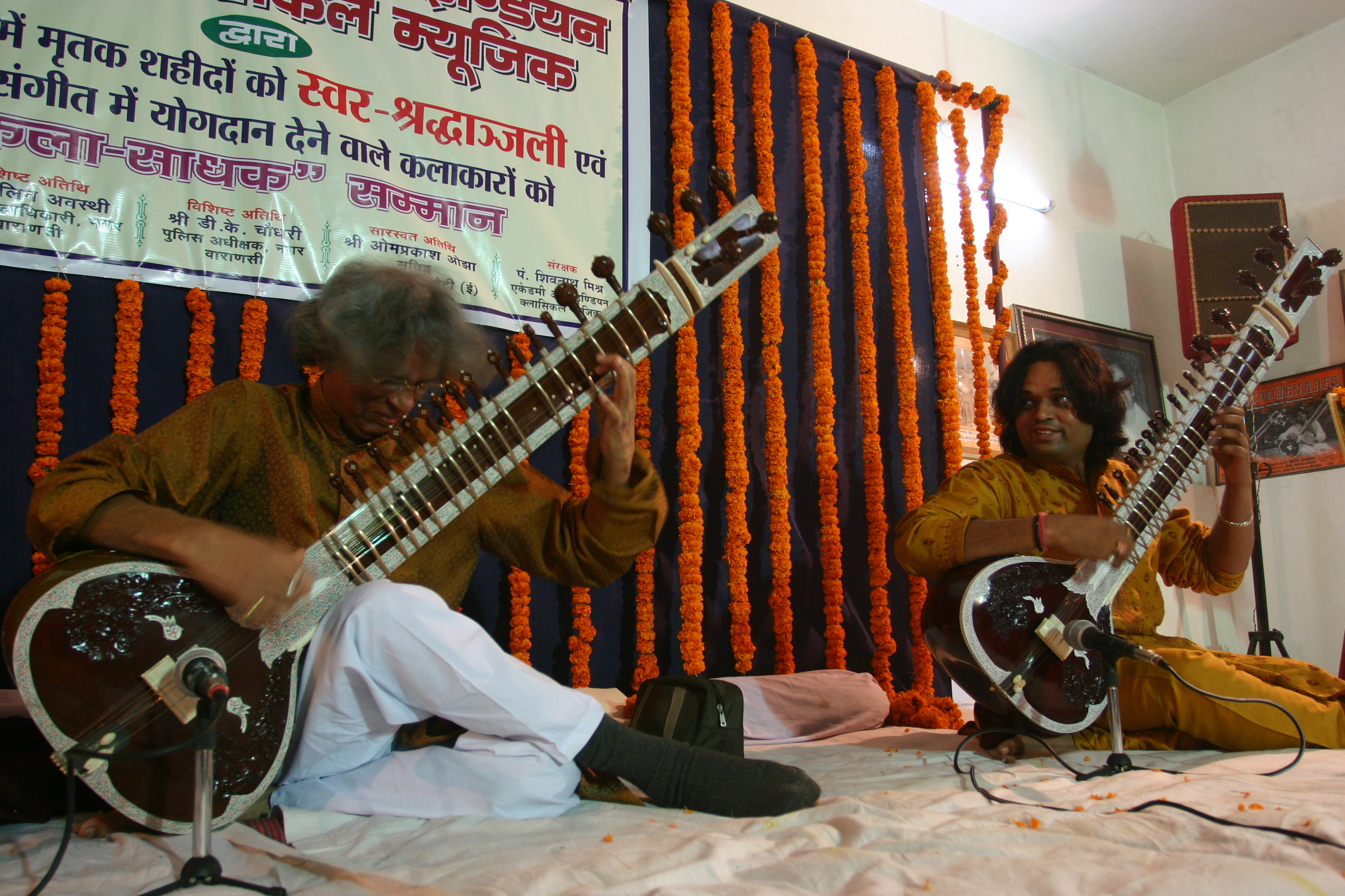 This picture was taken at a concert organized by Shivnath Mishra as his tribute to the victims of 2008 terrorist attack on Mumbai